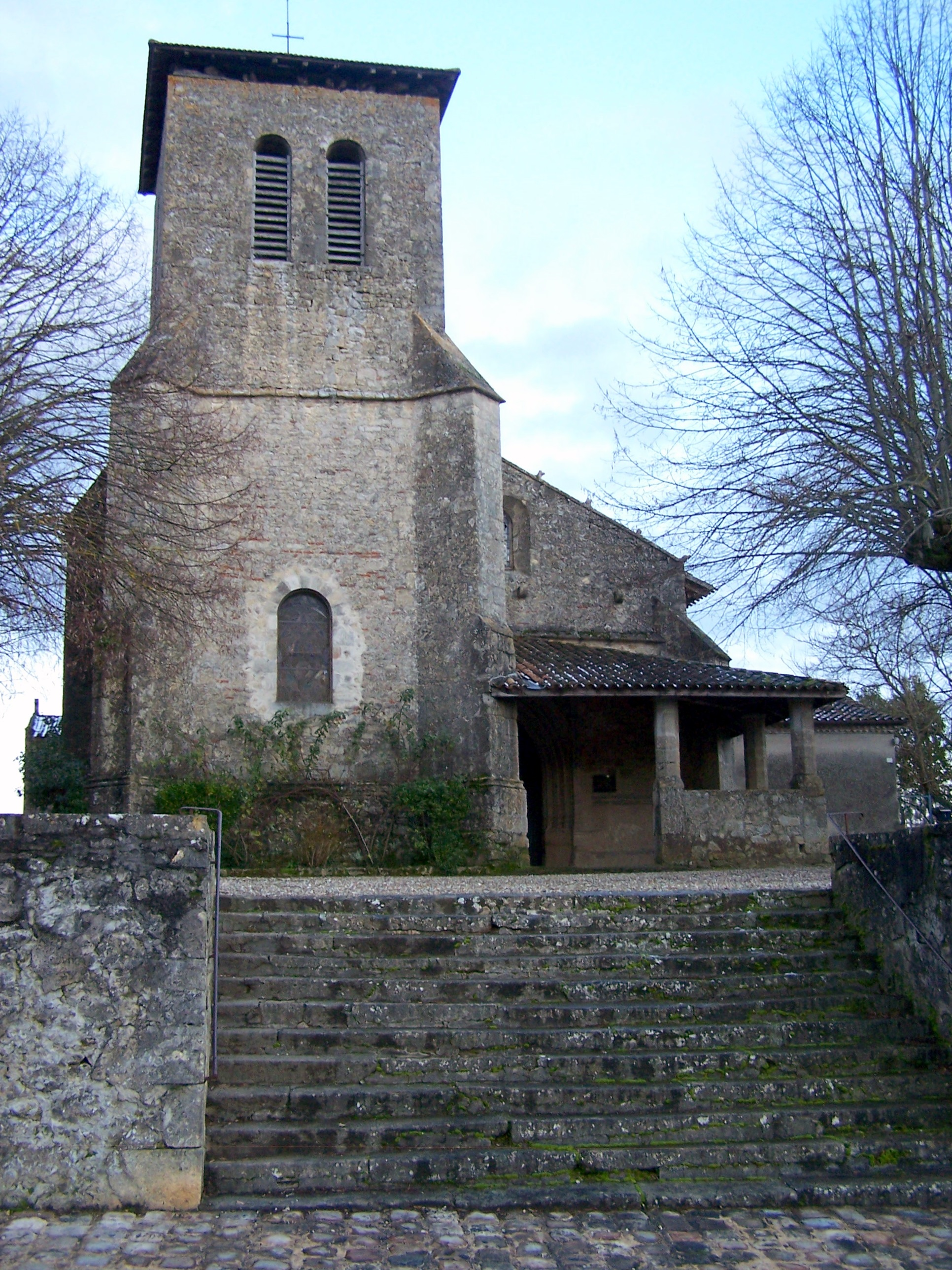 Church of Gironde-sur-Dropt (Gironde, France)